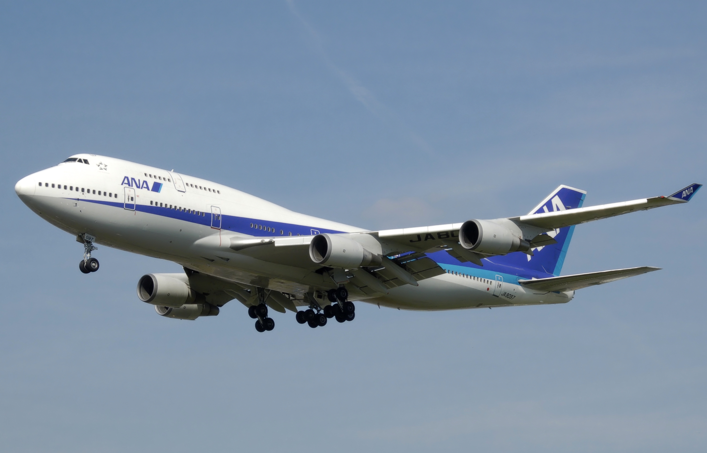 ANA Boeing 747-400 (JA8097) landing at London Heathrow Airport.